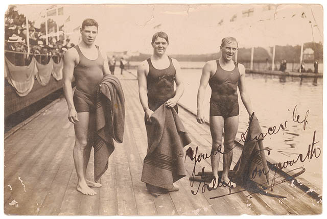 Harold Hardwick (left), William Longworth and either Australian Leslie Boardman or Malcolm Champion of New Zealand (right), Stockholm Olympics, 1912. Harold Hardwick won a gold and two bronze medals at the 1912 Olympic Games, Stockholm. William Longworth competed in heats and semi-finals for the 1500 metres and 100 metres freestyle repectively, but was forced to retire with ill-health. Format: Gelatin silver photographic print. From the collections of the Mitchell Library, State Library of New South Wales